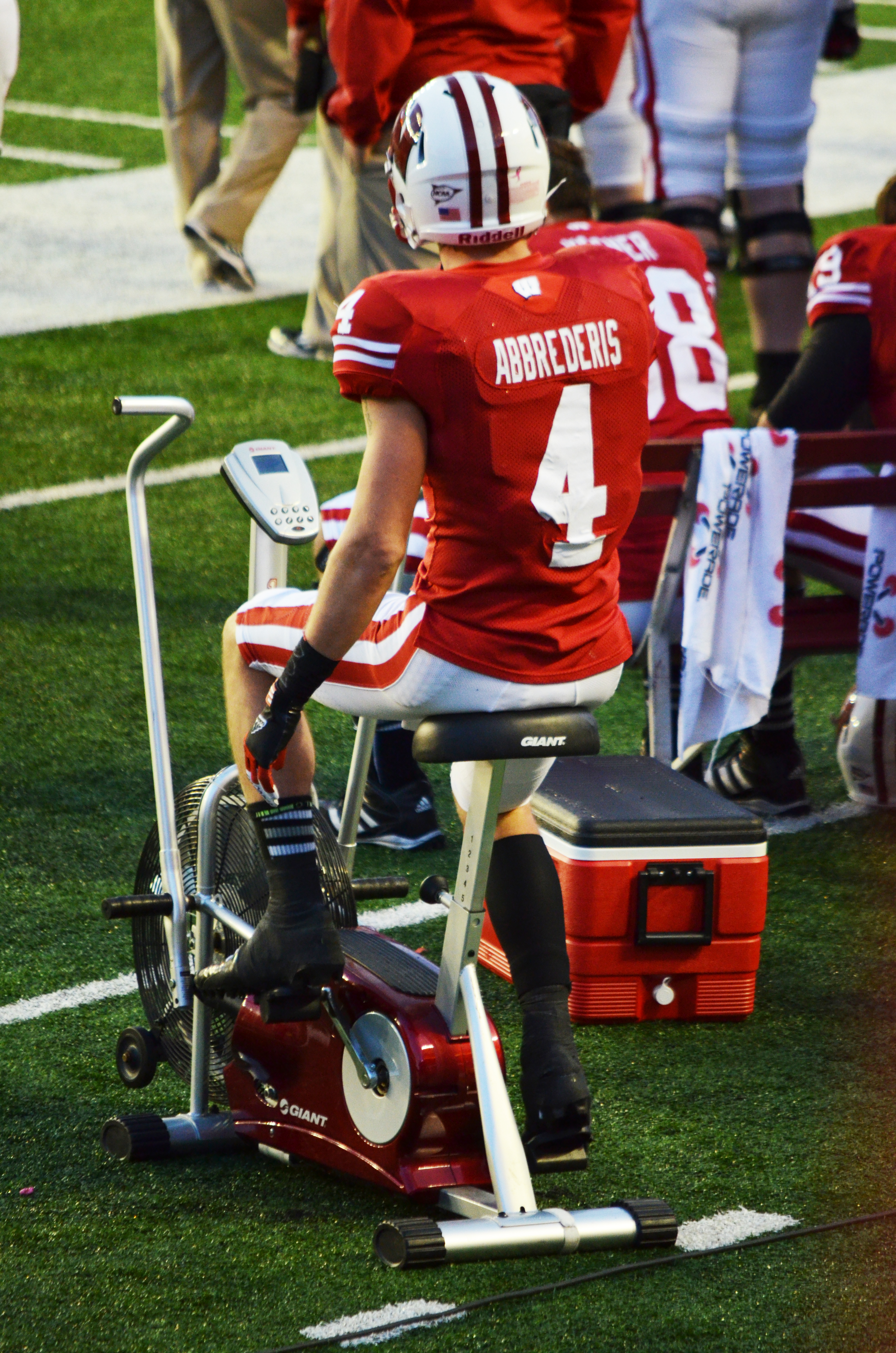 Jared Abbrederis Workingout vs OSU vs OSU 11.17.12